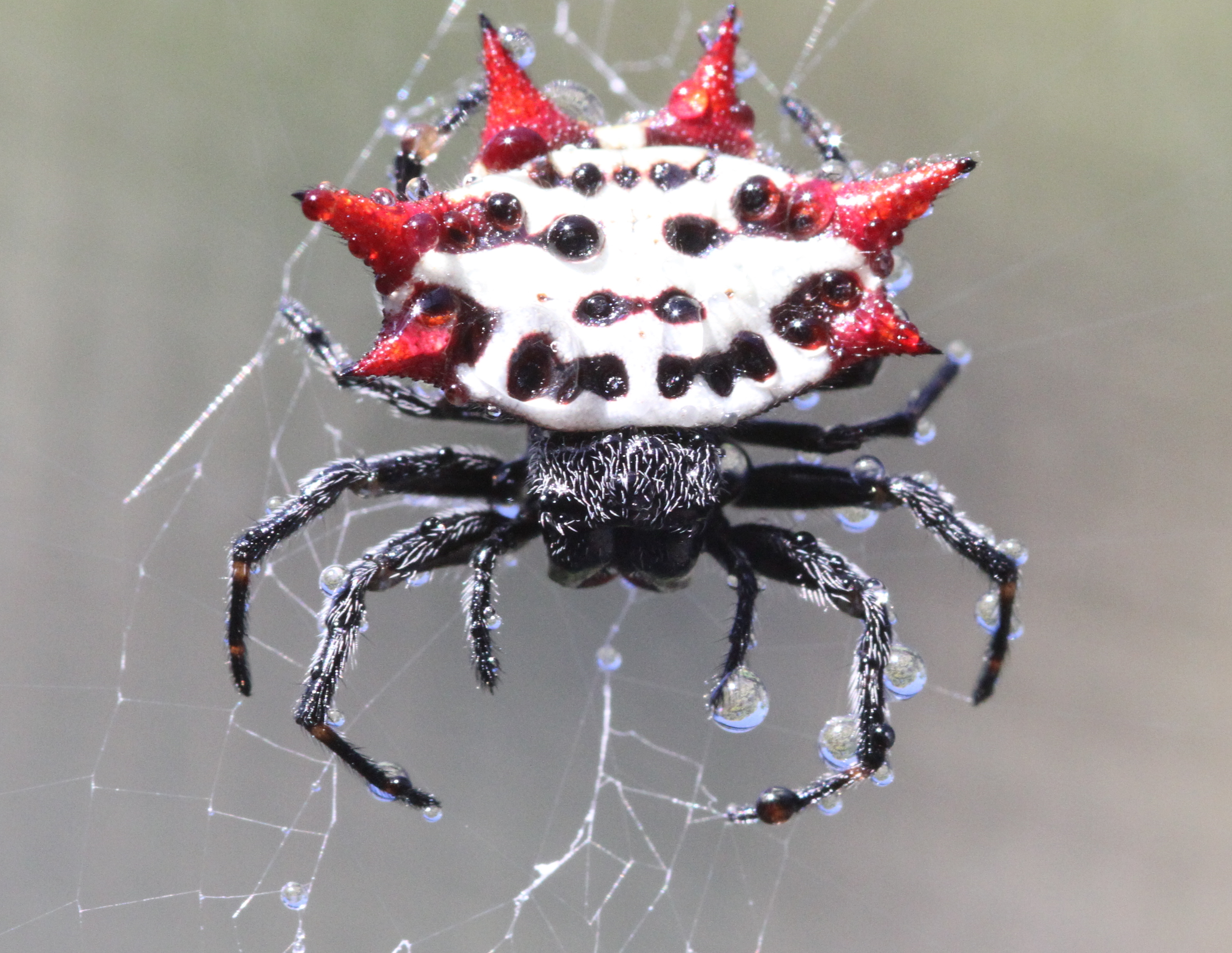 Spiny backed orbweaver spider